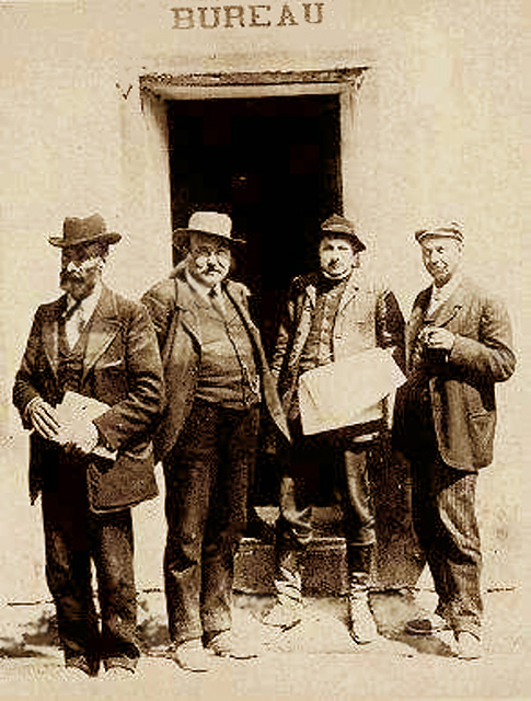 Comity of Argeliers